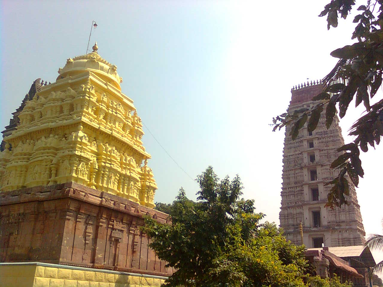 This is a main temple of Andhra Pradesh dedicated to Lord Narasimha